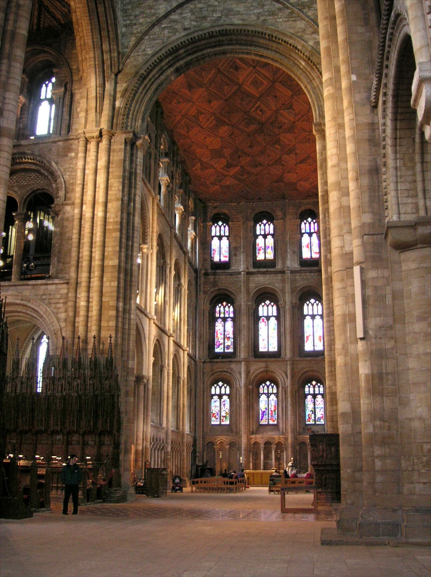 Peterborough Cathedral, the Norman south transept. Gothic tracery has been added to the Norman windows. The stained glass is 19th century